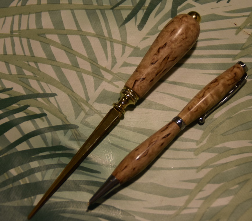 Woodturned Pen and Letter opener